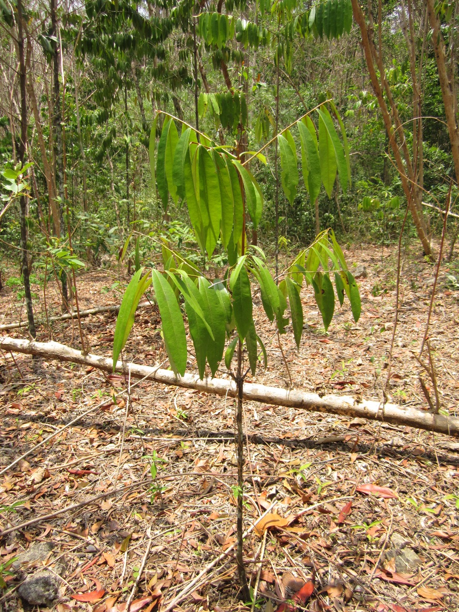 Young tree of macassar ebony (Diosp. celebica)